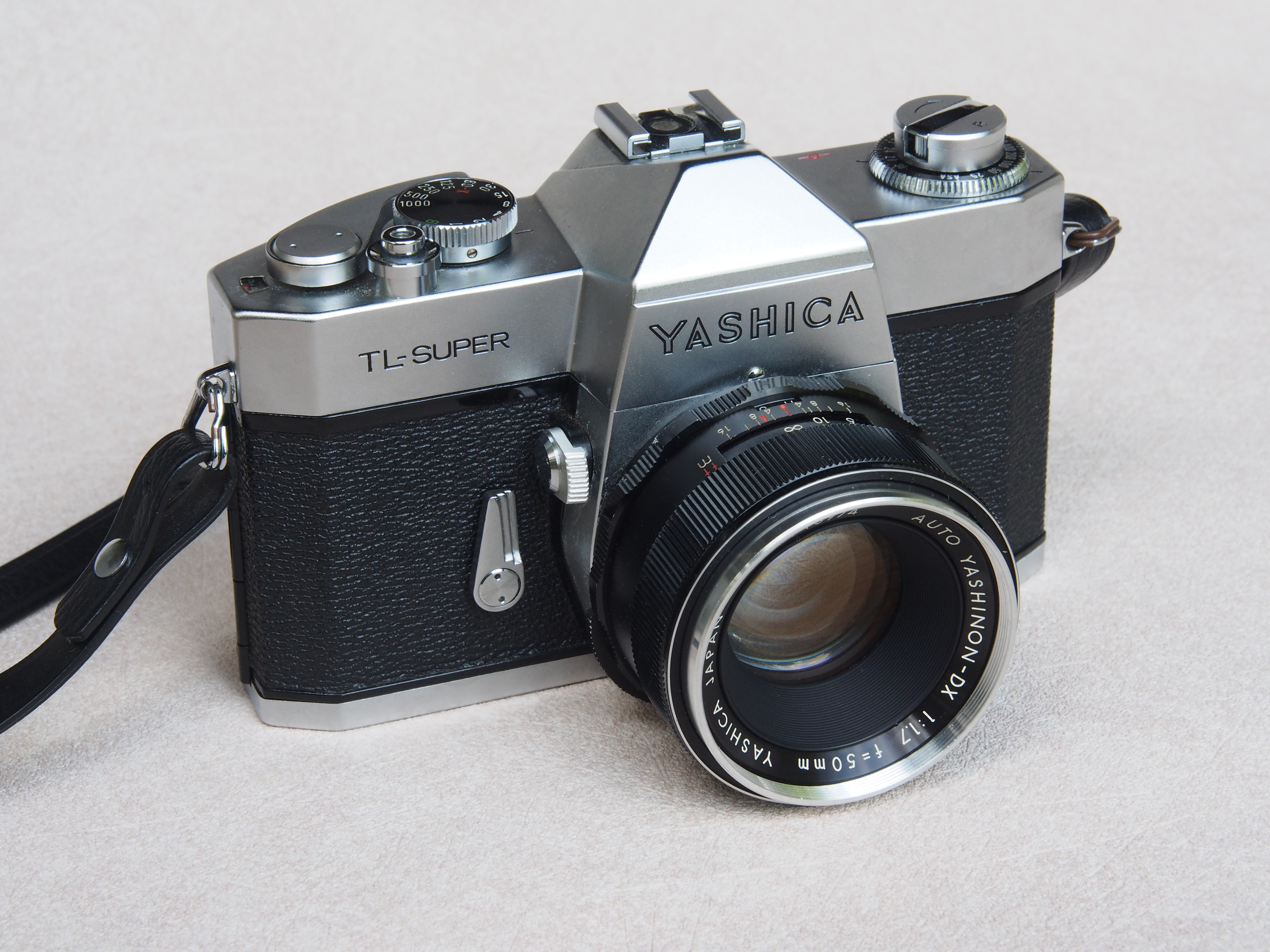 Yashica TL-Super